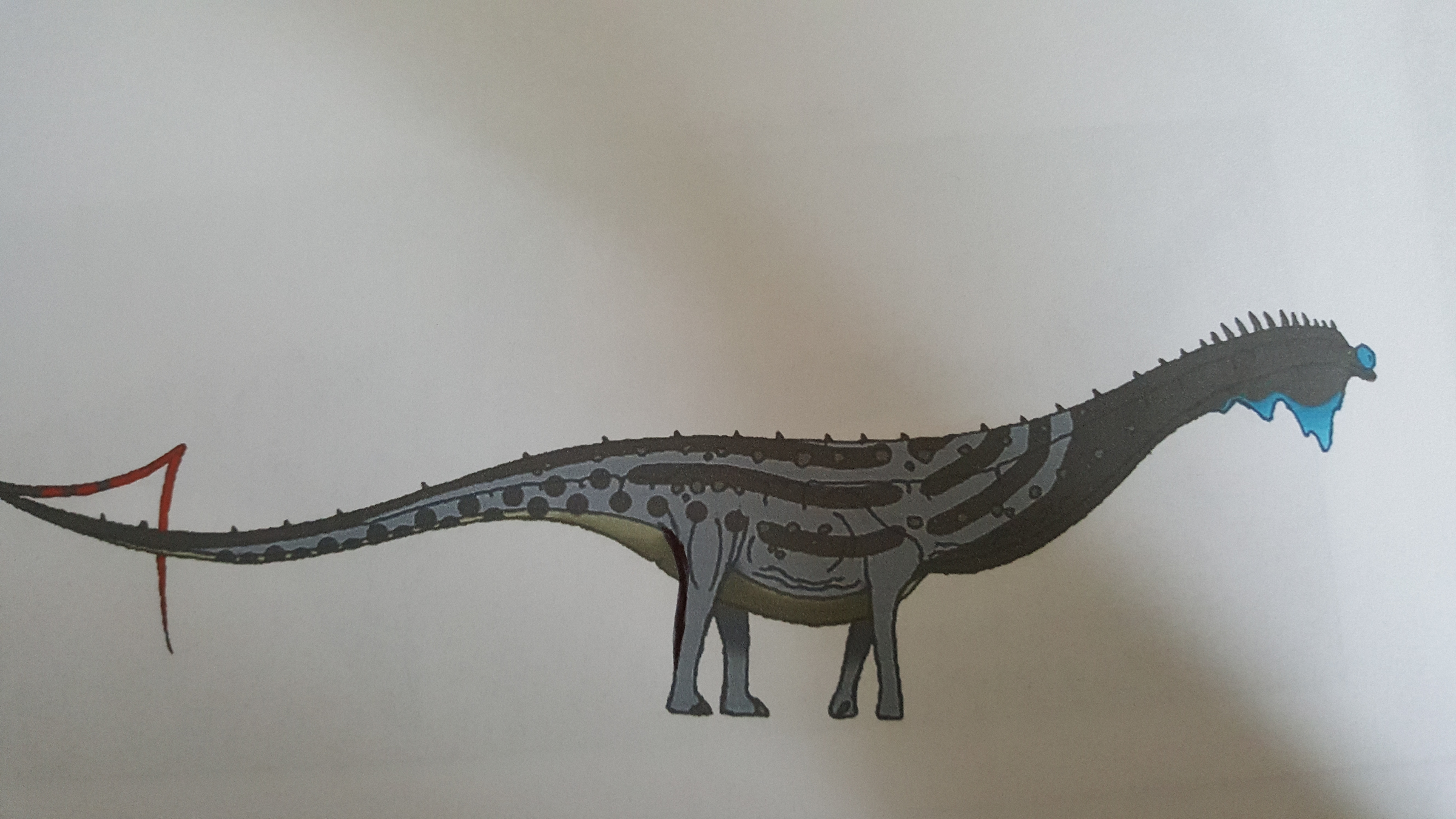 Amphicoelias life restoration